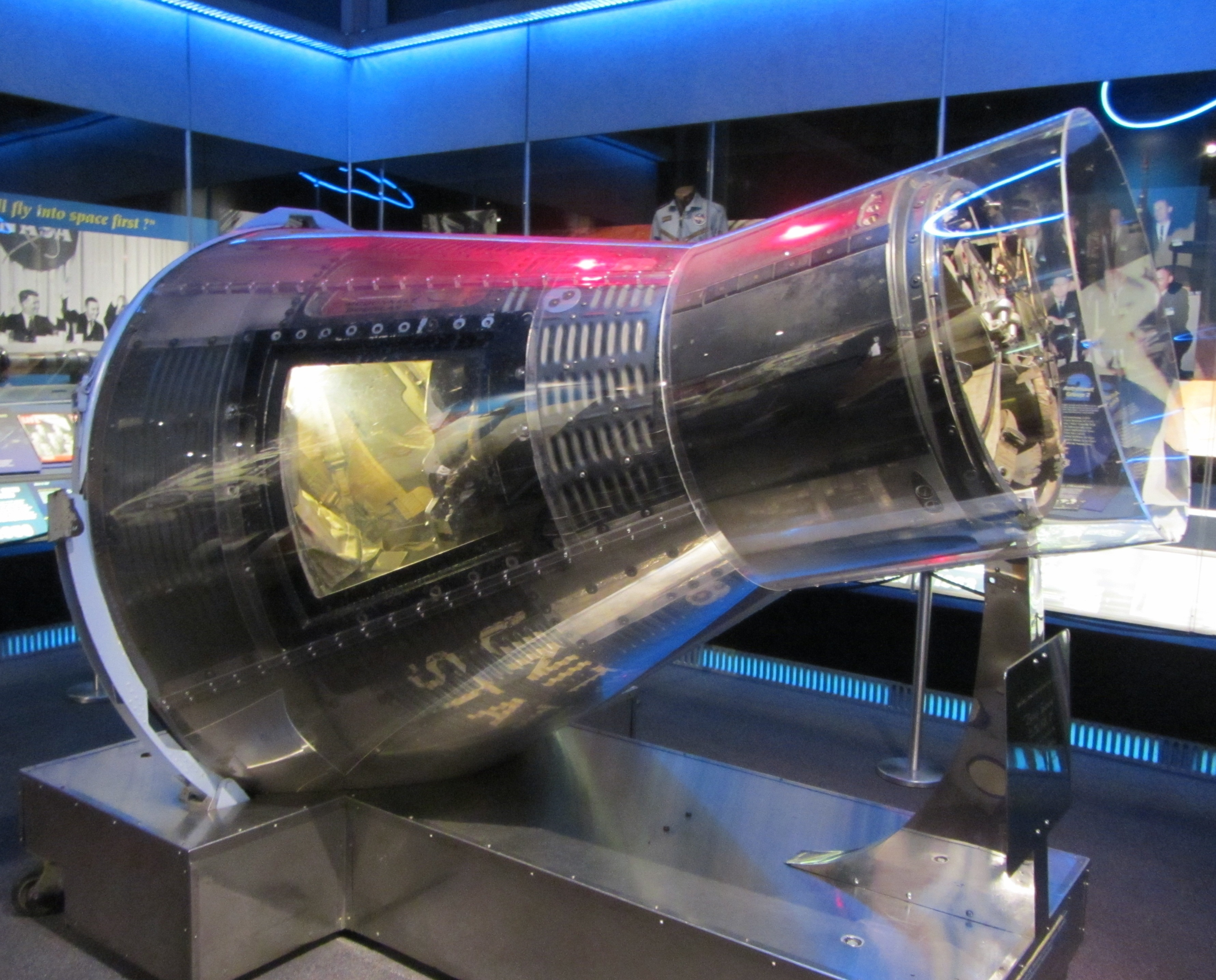 MA-8 Sigma 7 Astronaut Hall of Fame, Titusville, FL